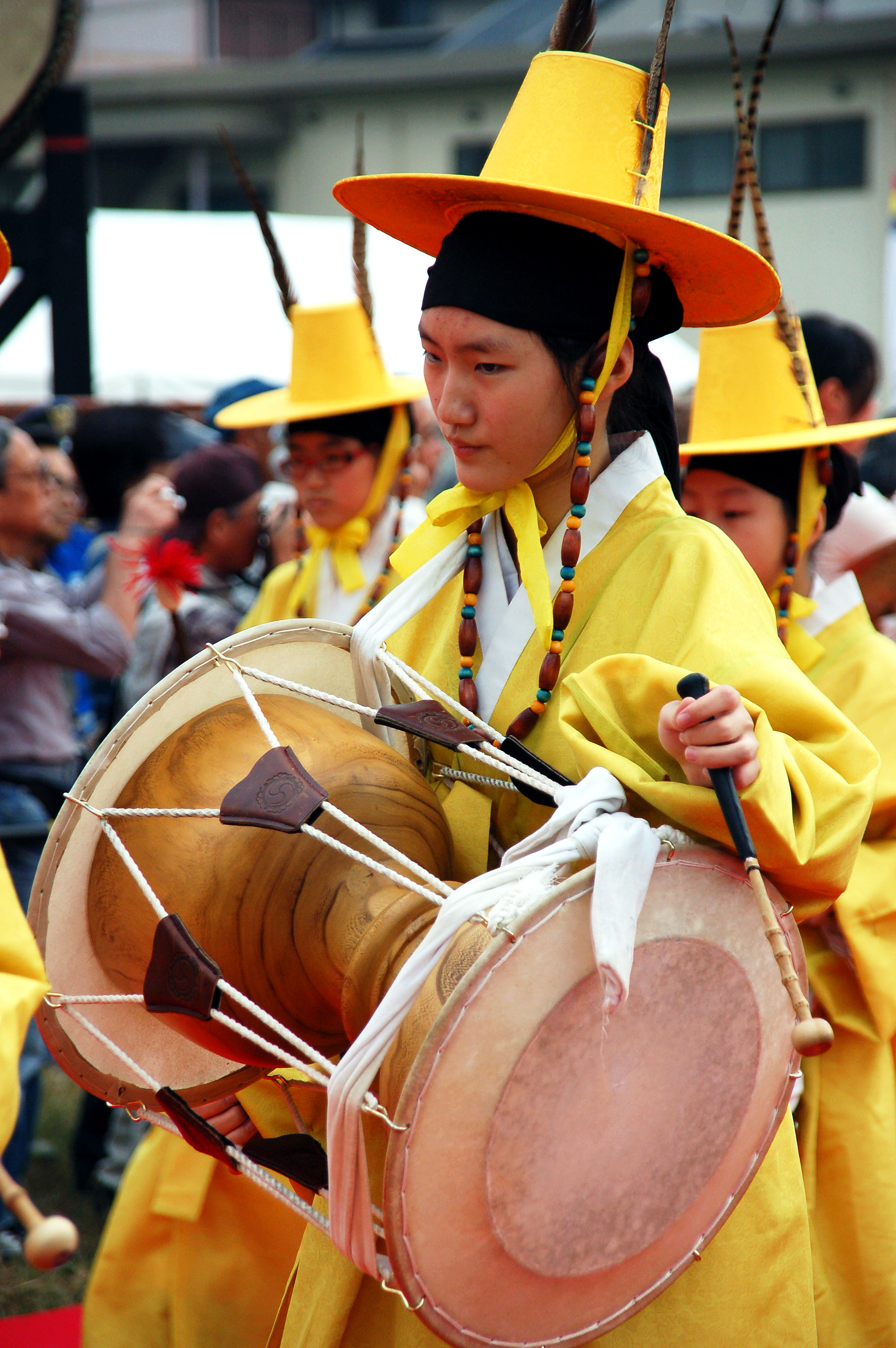 A performenr in Korean costume playig janggu.